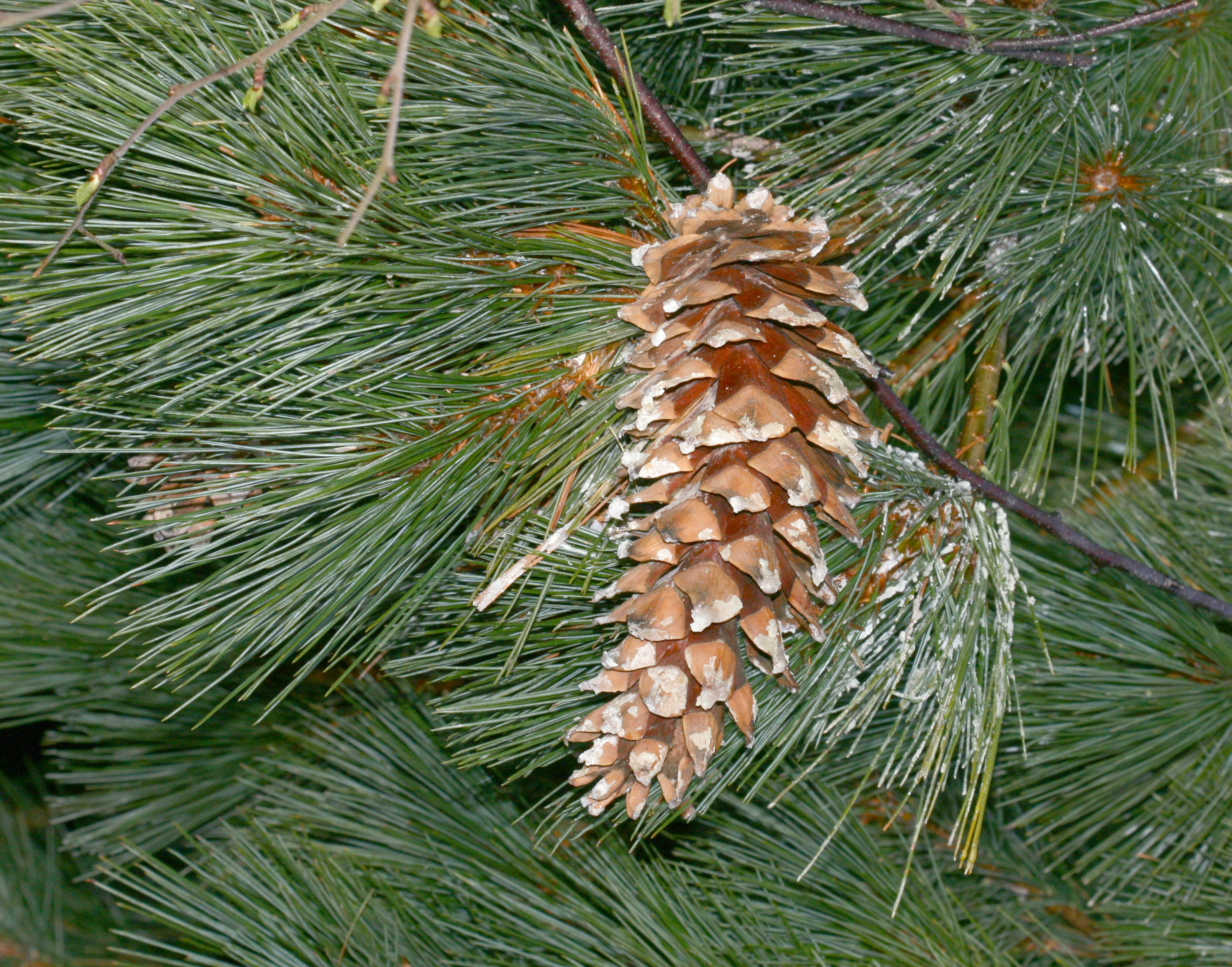 Cultivated Pinus ayacahuite, Saltoun Wood, East Lothian, Scotland.